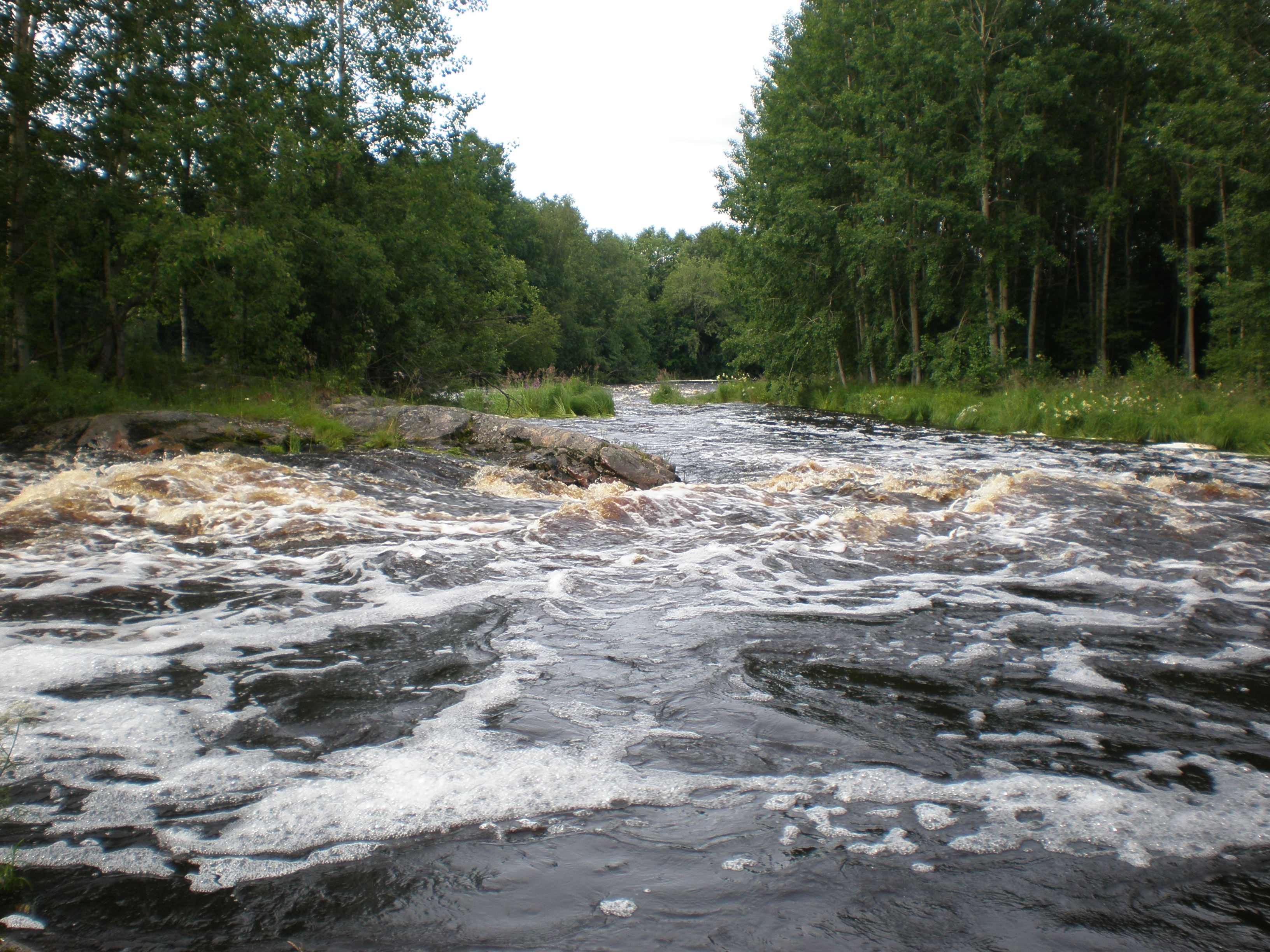 Rapids at River Perhonjoki, Veteli